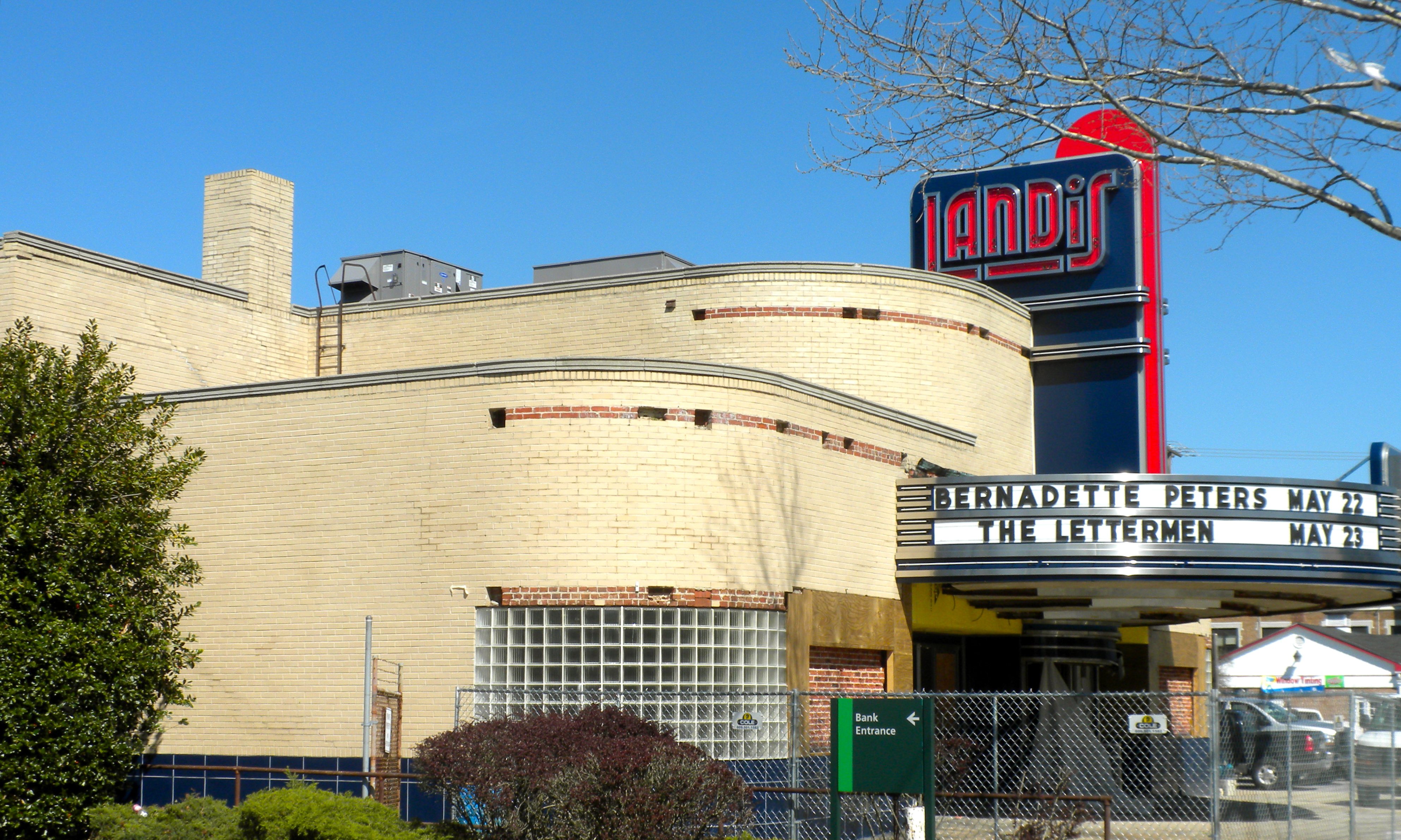 The Landis theater [Landis Theatre-Mori Brothers Building} on Landis Avenue in Vineland, New Jersey. Under reconstruction. On the National Register of Historic Places since November 22, 2000 830-834 Landis Ave. The reconstruction should be completed soon if the shows on the marquee are to go on!]